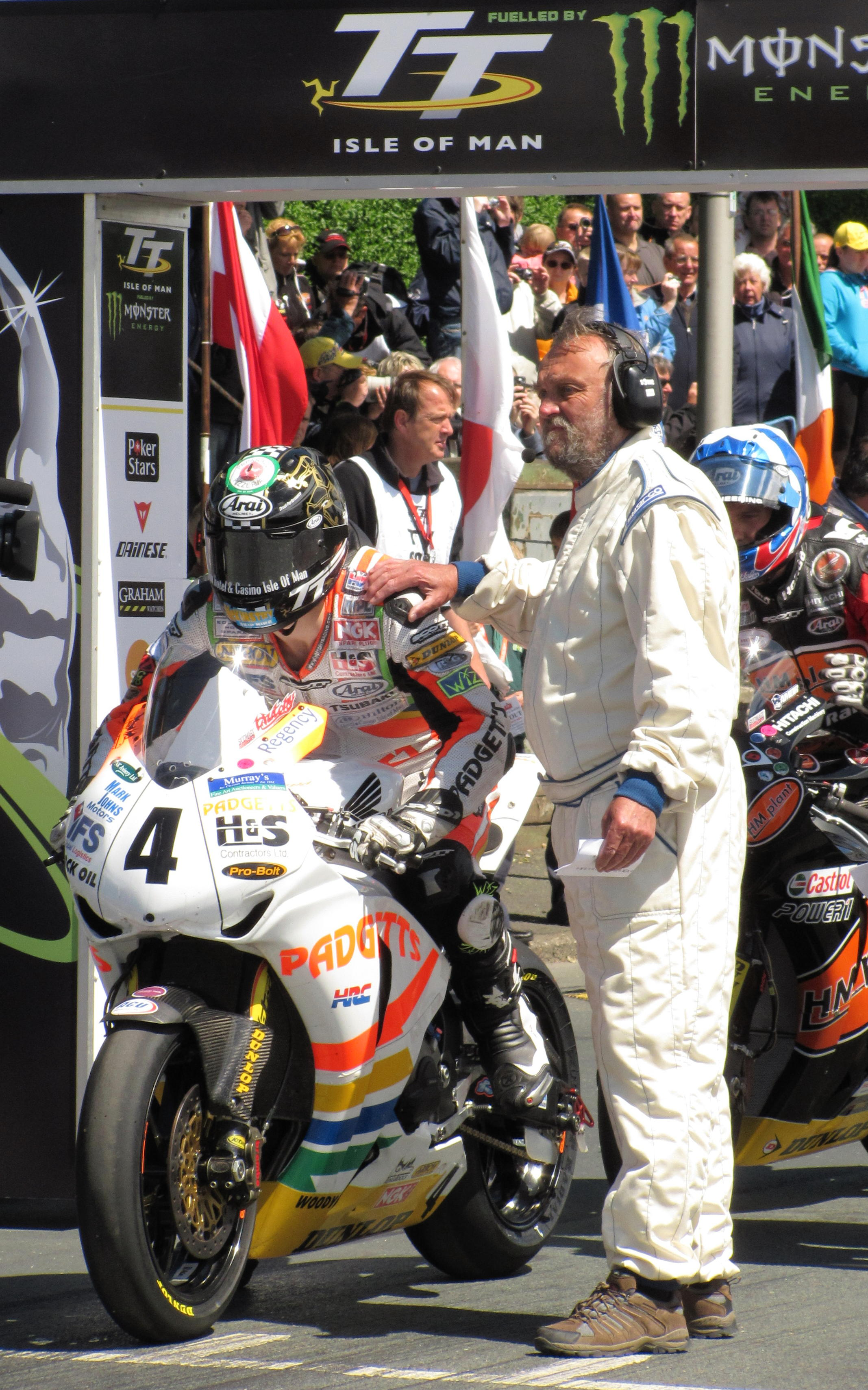 Ian Hutchinson